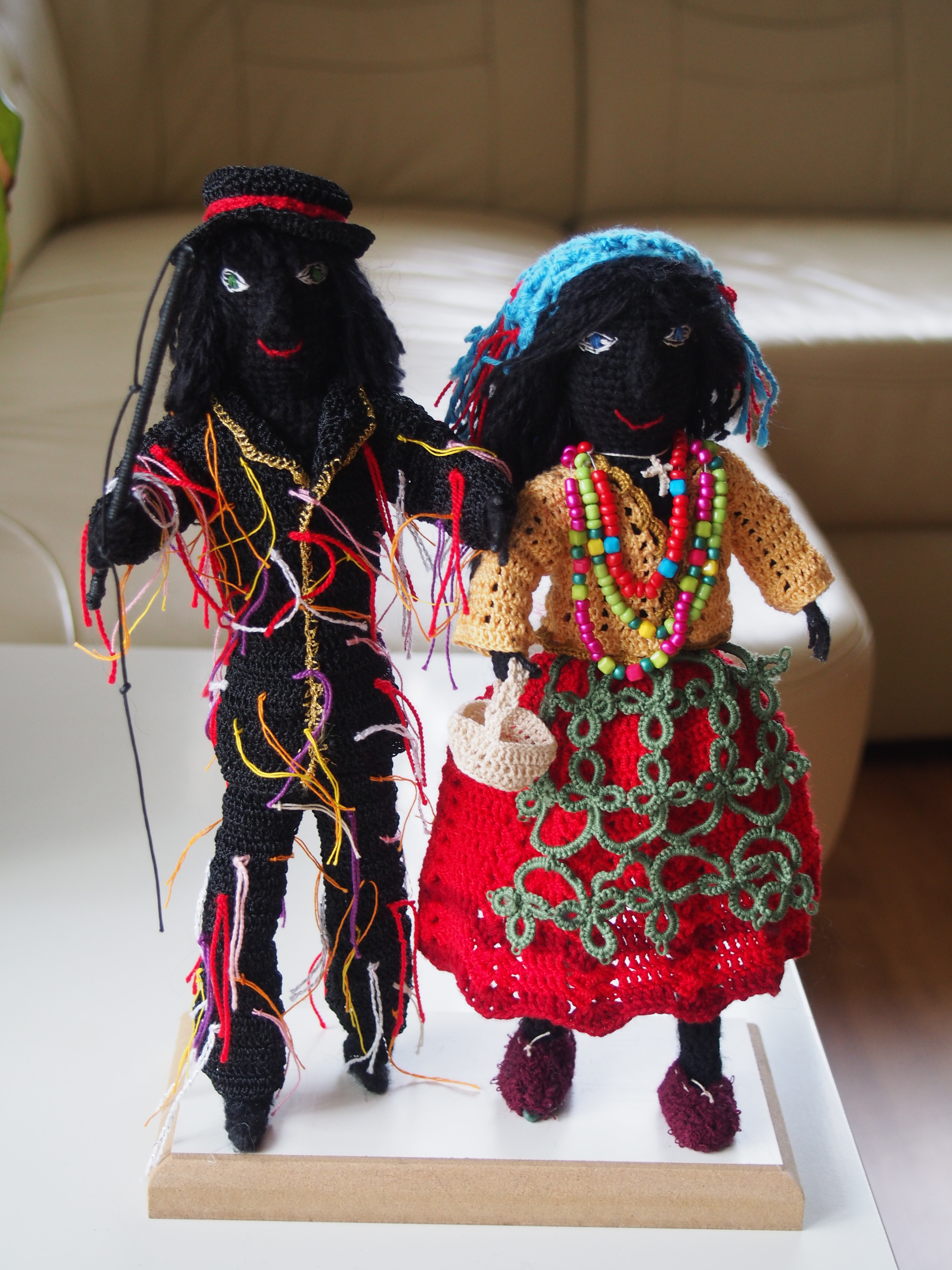 Siuda Baba, Polish folk tradition on Easter Monday, 6th April 2015, Lednica Górna, Poland.